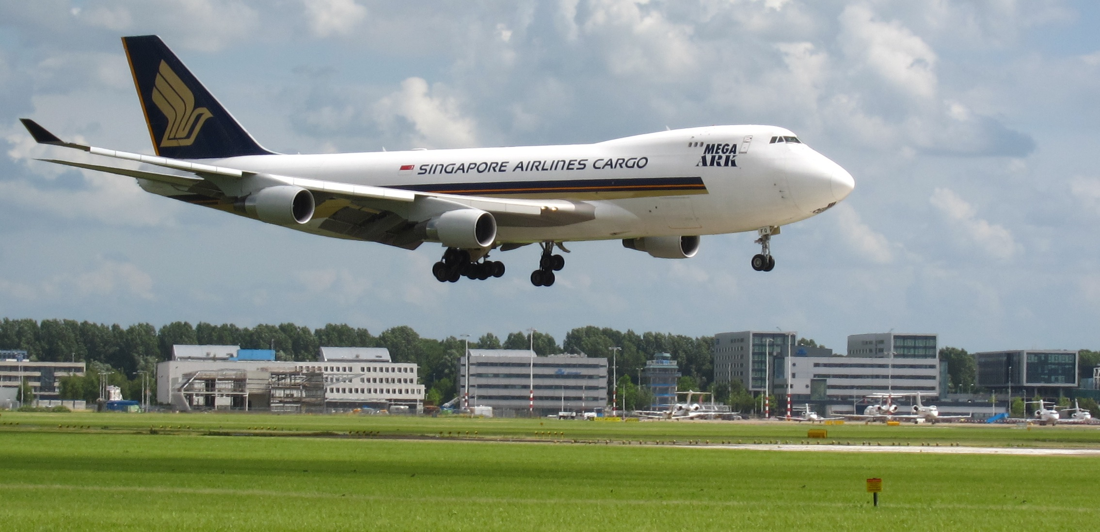 Singapore Airlines Cargo 747 landing at Schiphol Airport